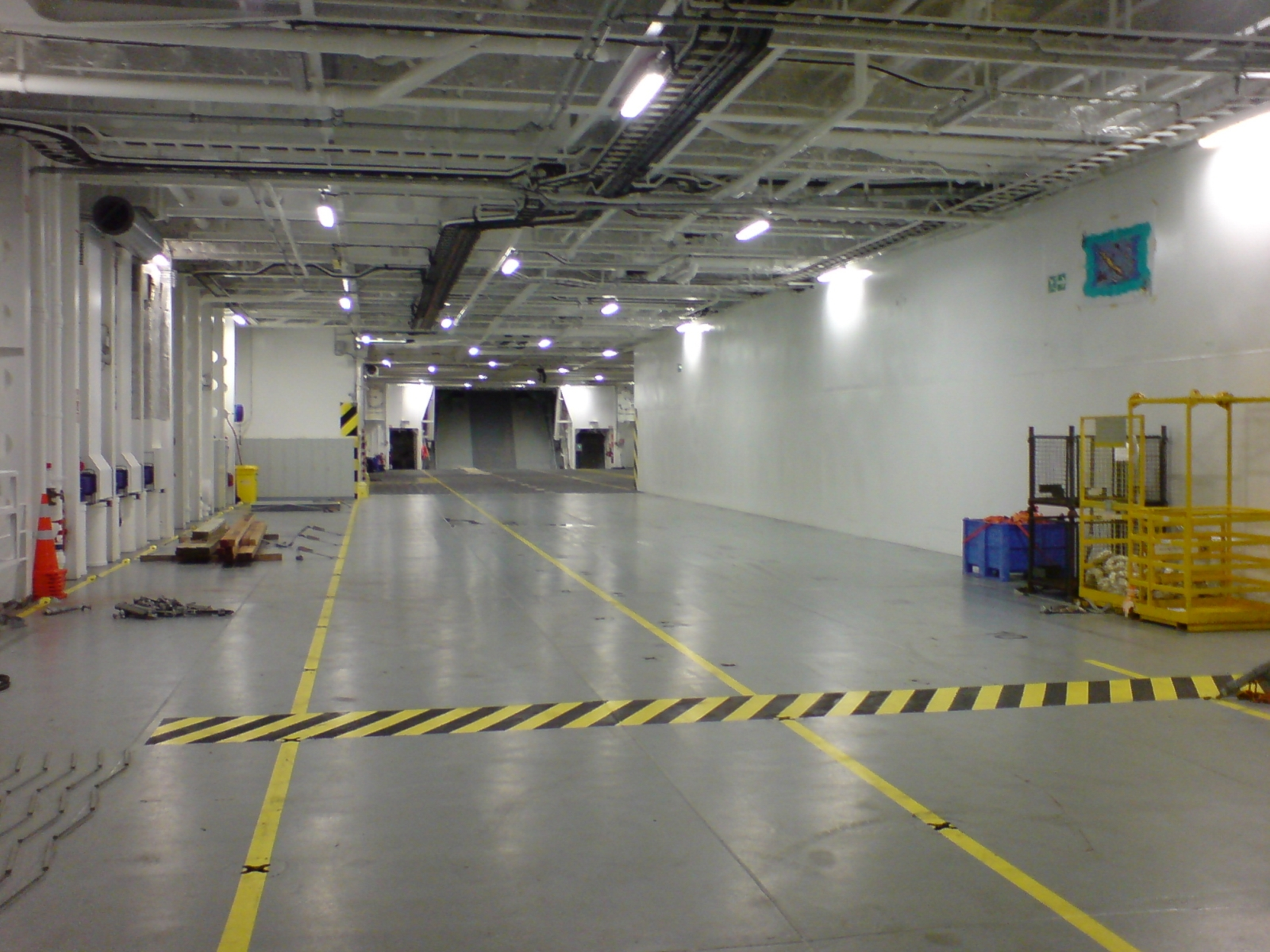 The vehicle well deck of the HMNZS Canterbury, able to take loads of containers, tanks, trucks or other vehicles. The central structure is slightly offset to the left (to the right in this picture looking towards the rear cargo ramp). The landing craft that the ship carries can be loaded from the rear hatch, though it requires very calm seas.